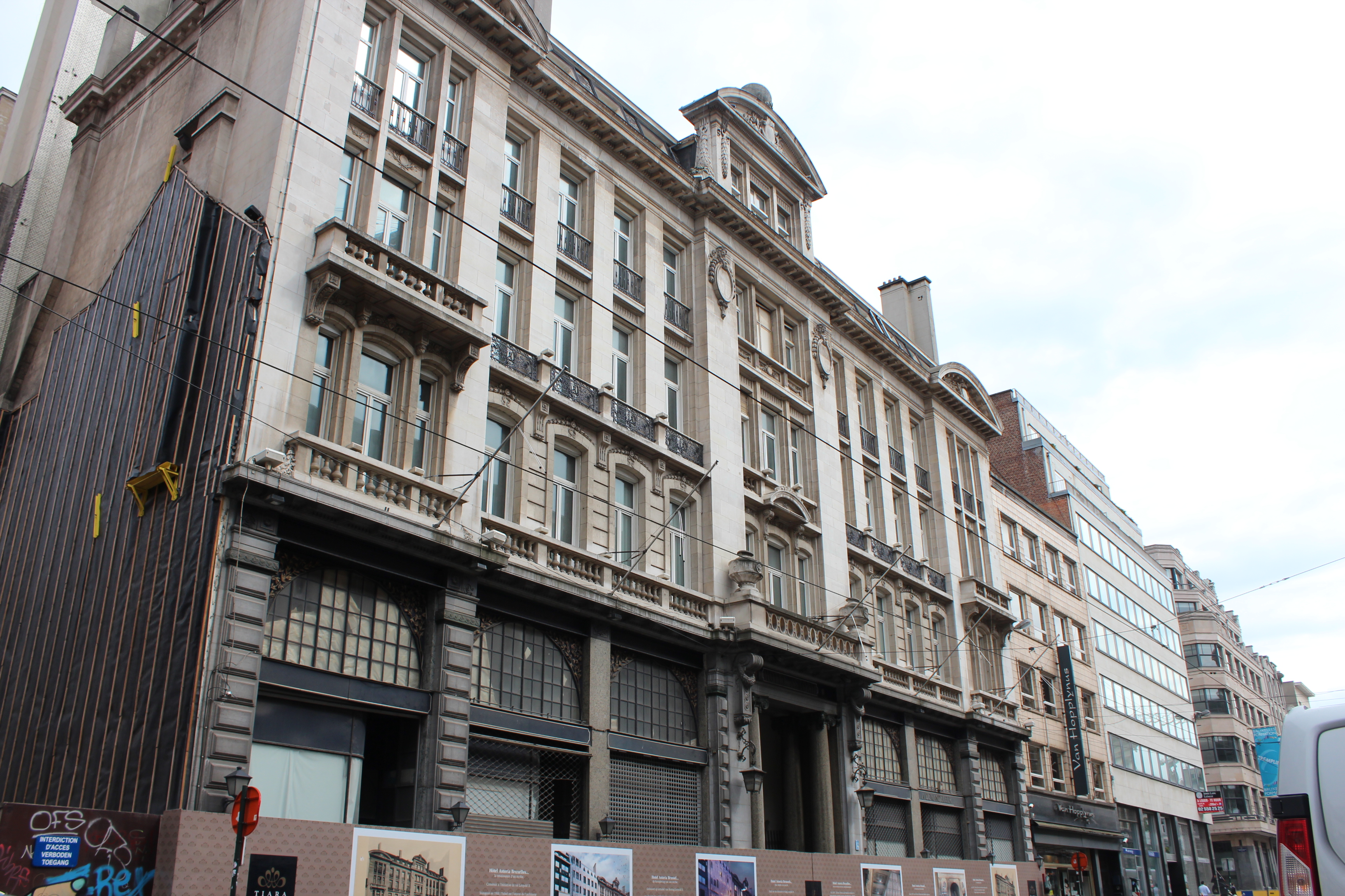 Hotel Astoria, rue Royale 101-103 Koningsstraat, Brussels (under renovation)